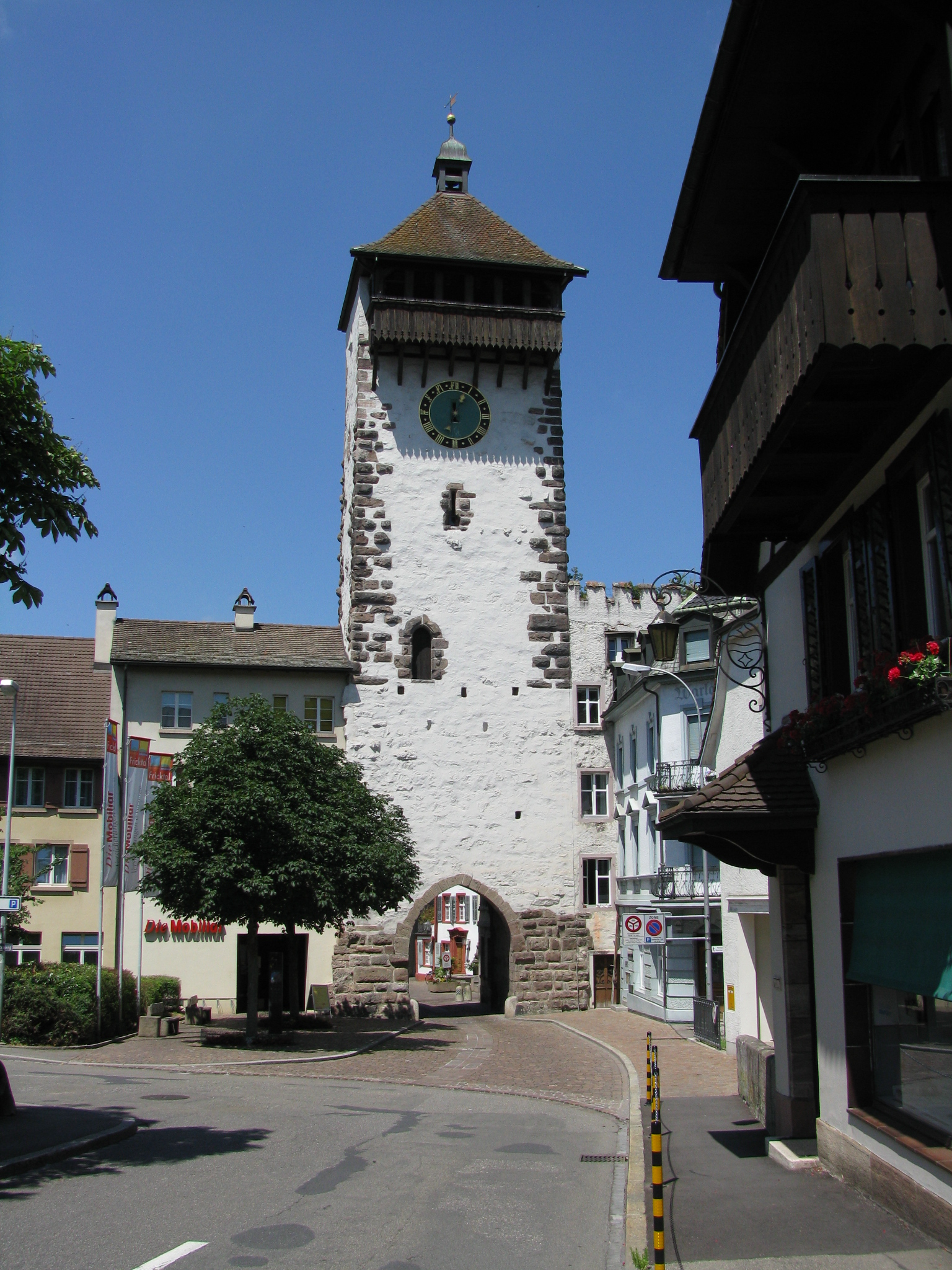 Obertorturm in Rheinfelden